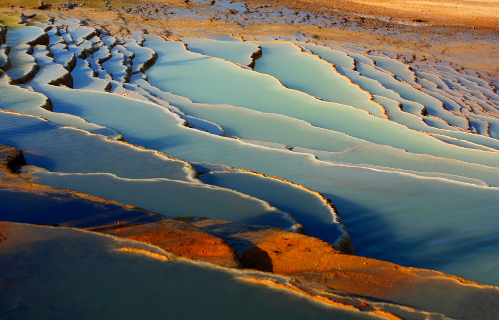 Badab-e Surt (Persian: باداب سورت) is a natural site in Mazandaran Province in northern Iran, 95 kilometers South of city of Sari, and 7 kilometers west of Orost village. It comprises a range of stepped travertine terrace formations that has been created over thousands of years as flowing water from two mineral hot springs cooled and deposited carbonate minerals on the mountain side